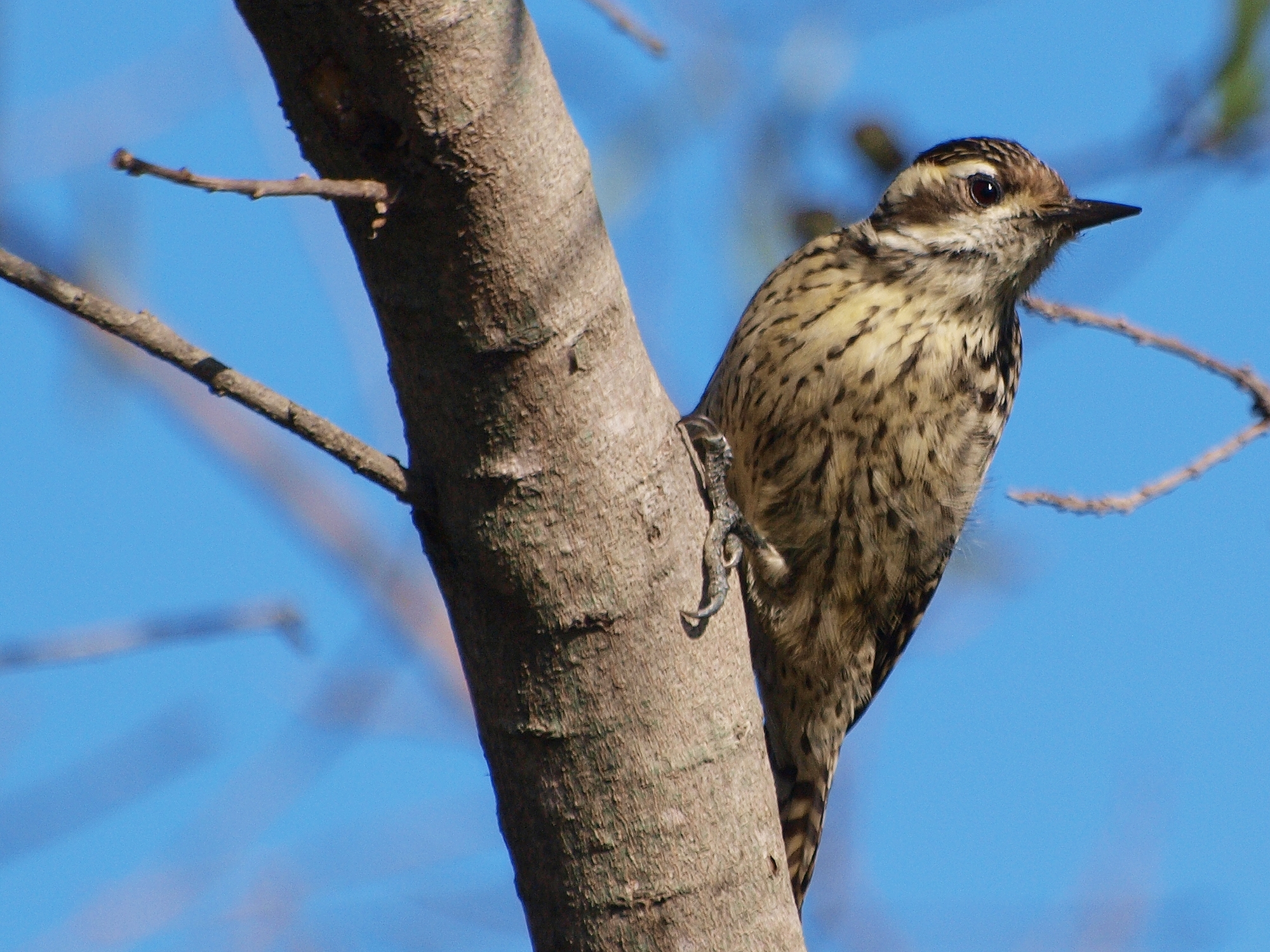 A female Checkered Woodpecker in Buenos Aires, Argentina.